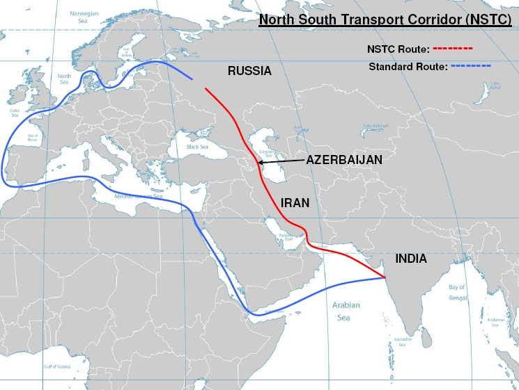 Map of North South Transport Corridor route vs standard route from India